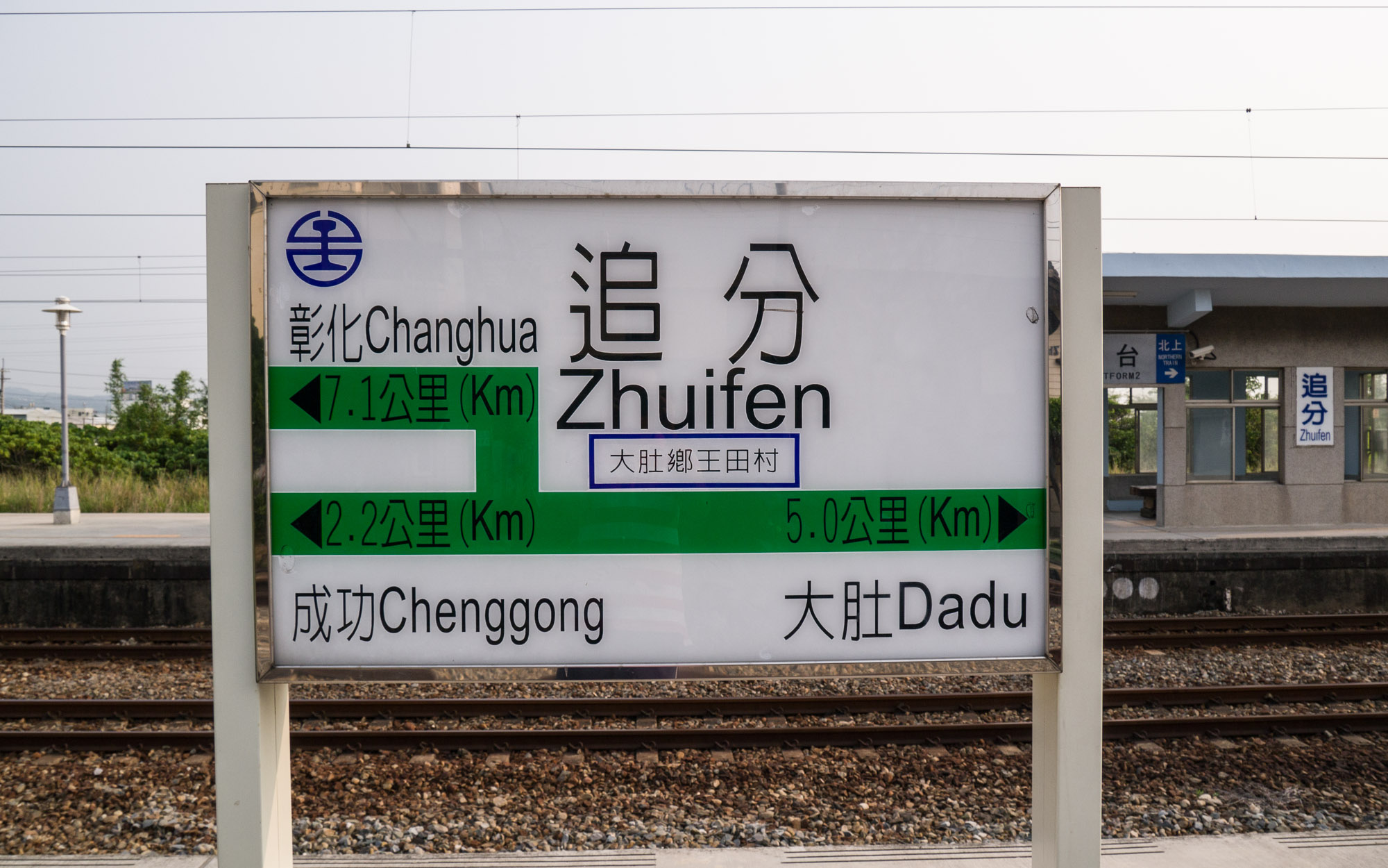 追分車站 TRA Jhuifen Station